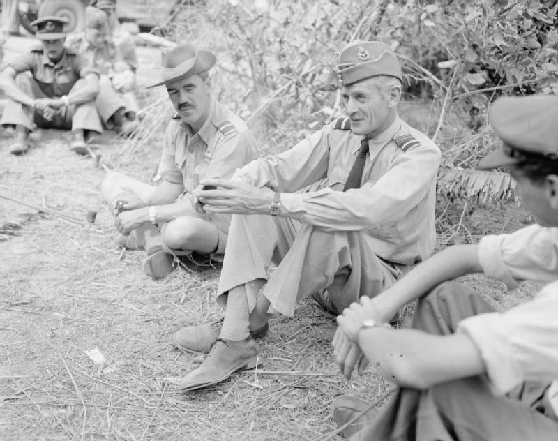 IWM caption : Air Chief Marshal Sir Keith Park, Allied Air Commander-in-Chief, Air Command South East Asia, talks to pilots at Kyaukpyu landing ground during a visit to Ramree Island, Burma. To his right sits Air Commodore the Earl of Bandon, Air Officer Commanding No. 224 Group RAF.